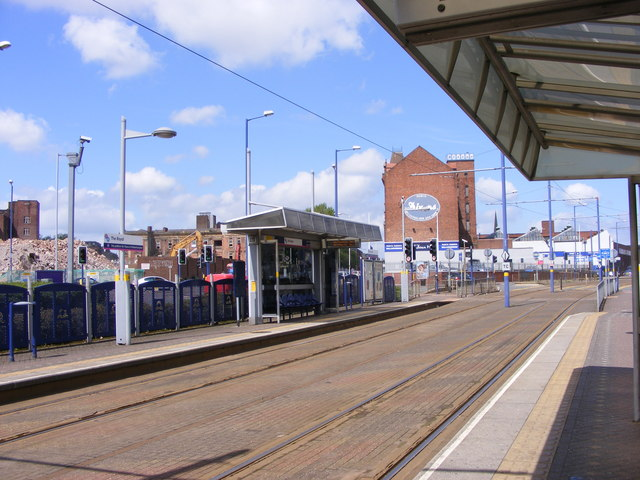 The Royal tram stop Original description: The Royal Station A Tram stop on the Wolverhampton Metro line.